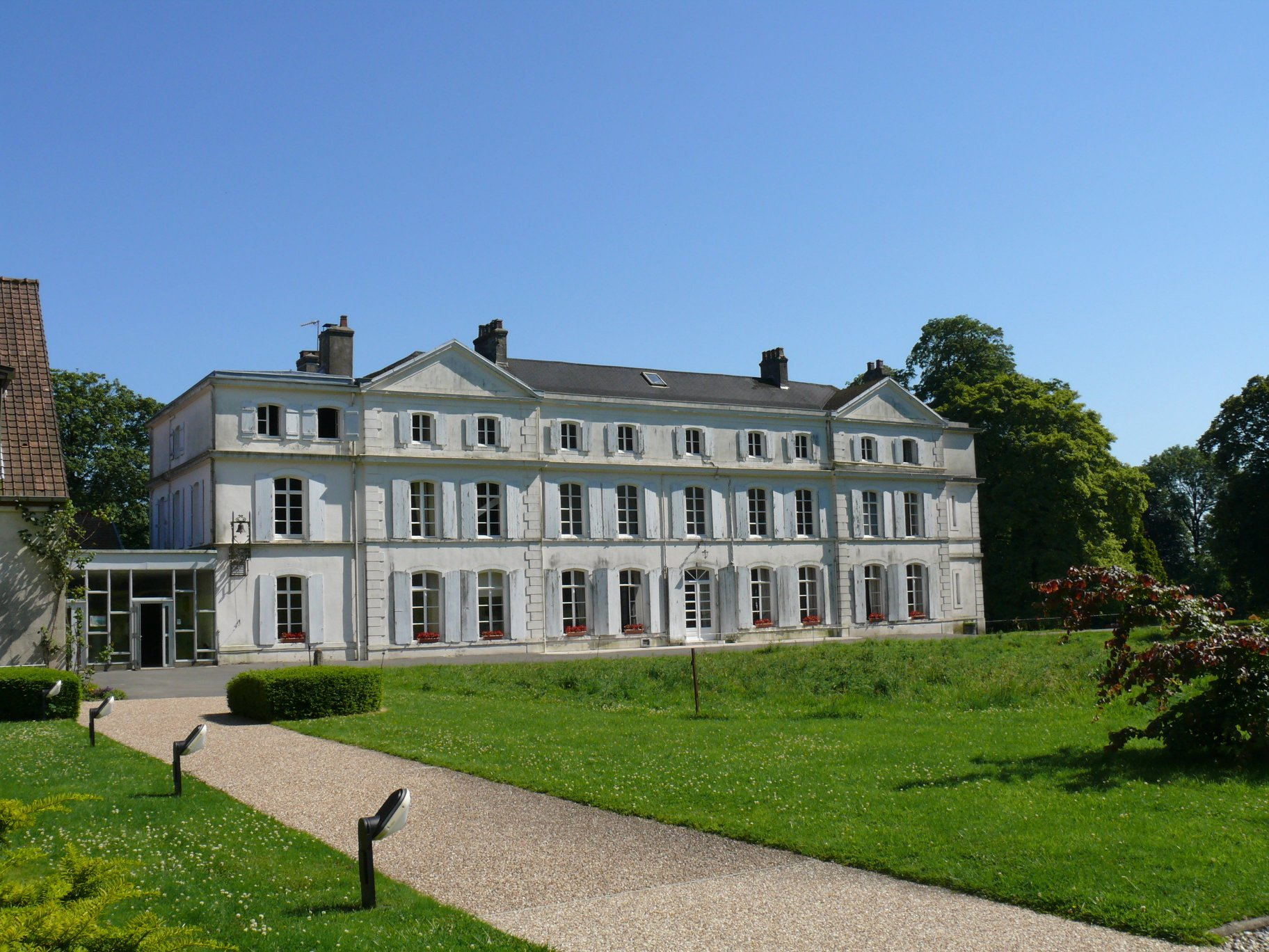 The "Foyer de charité" of Courset (Pas-de-Calais, France).